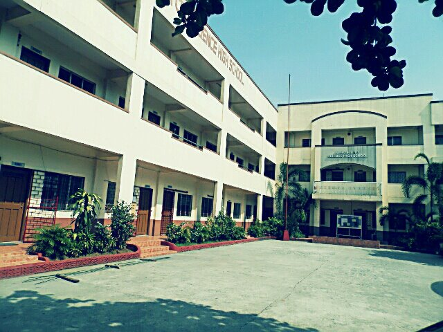 Valenzuela City Science High School building